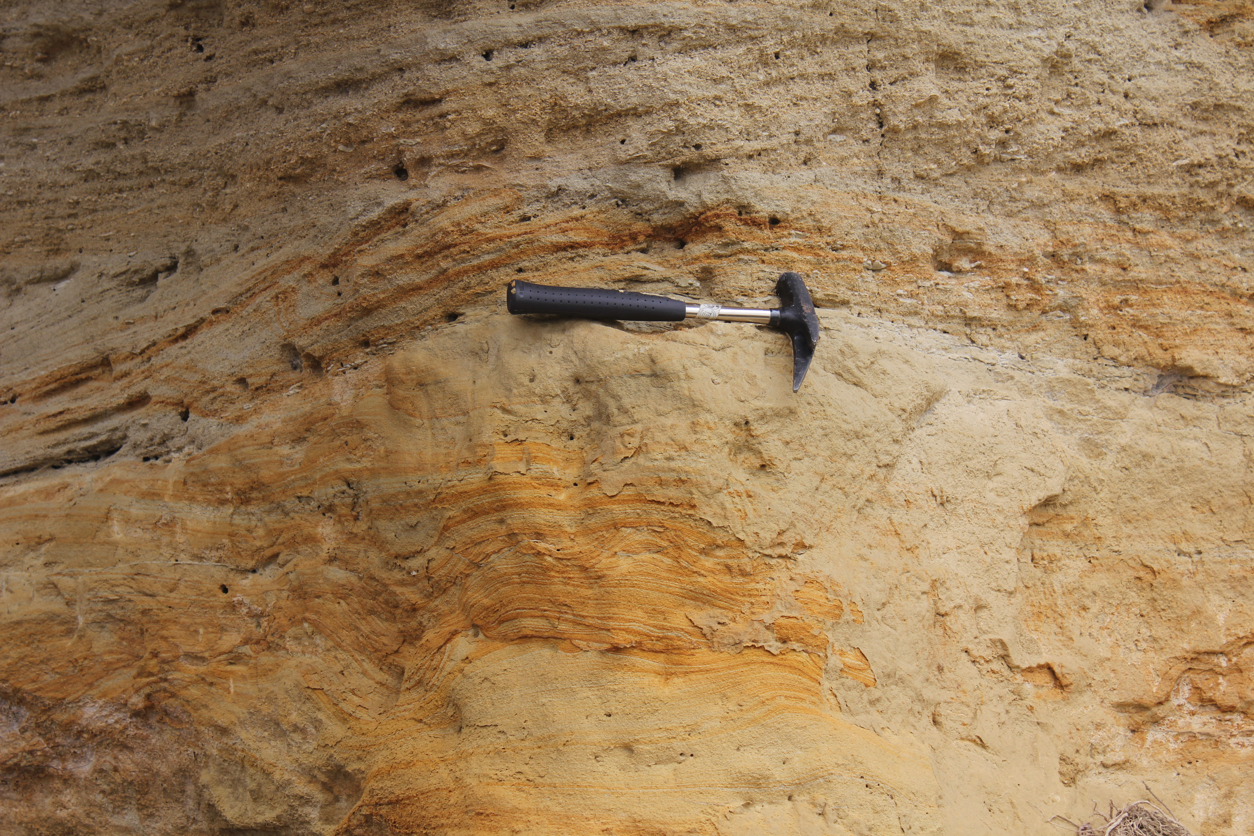 Abandoned sand quarry in Baden-Wuerttemberg. outcrop of the Obere Meeresmolasse (OMM), here and there with fossils